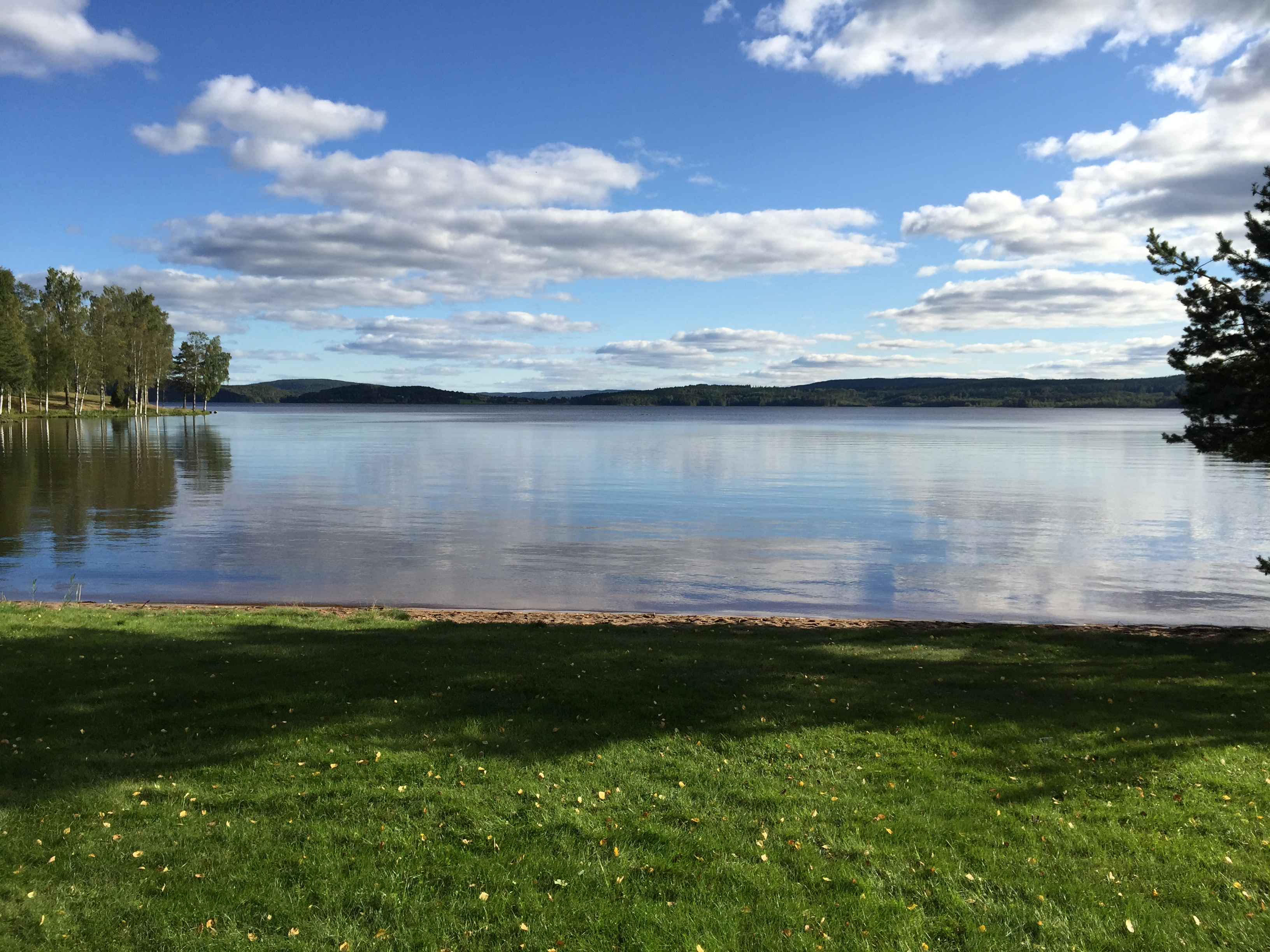 Lake Hugn in Värmland, Sweden.